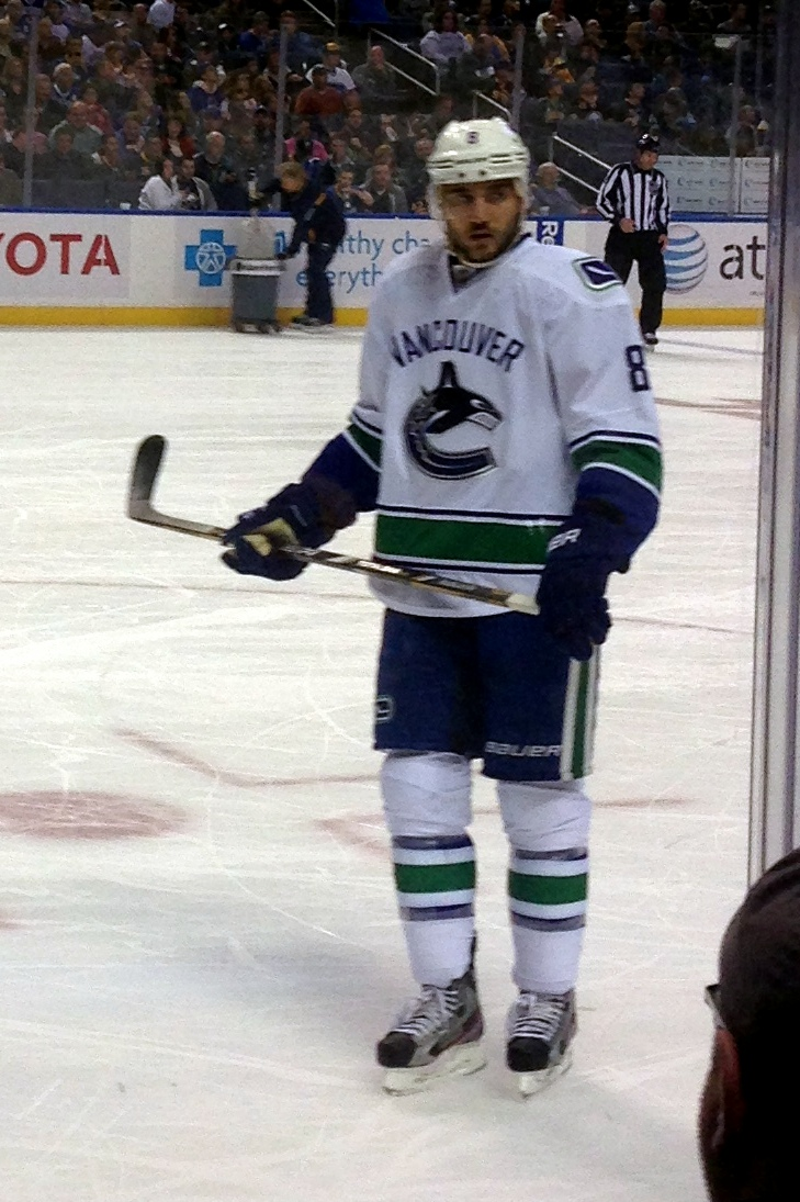 Chris Tanev playing for the Vancouver Canucks during a game vs. the Buffalo Sabres in 2013